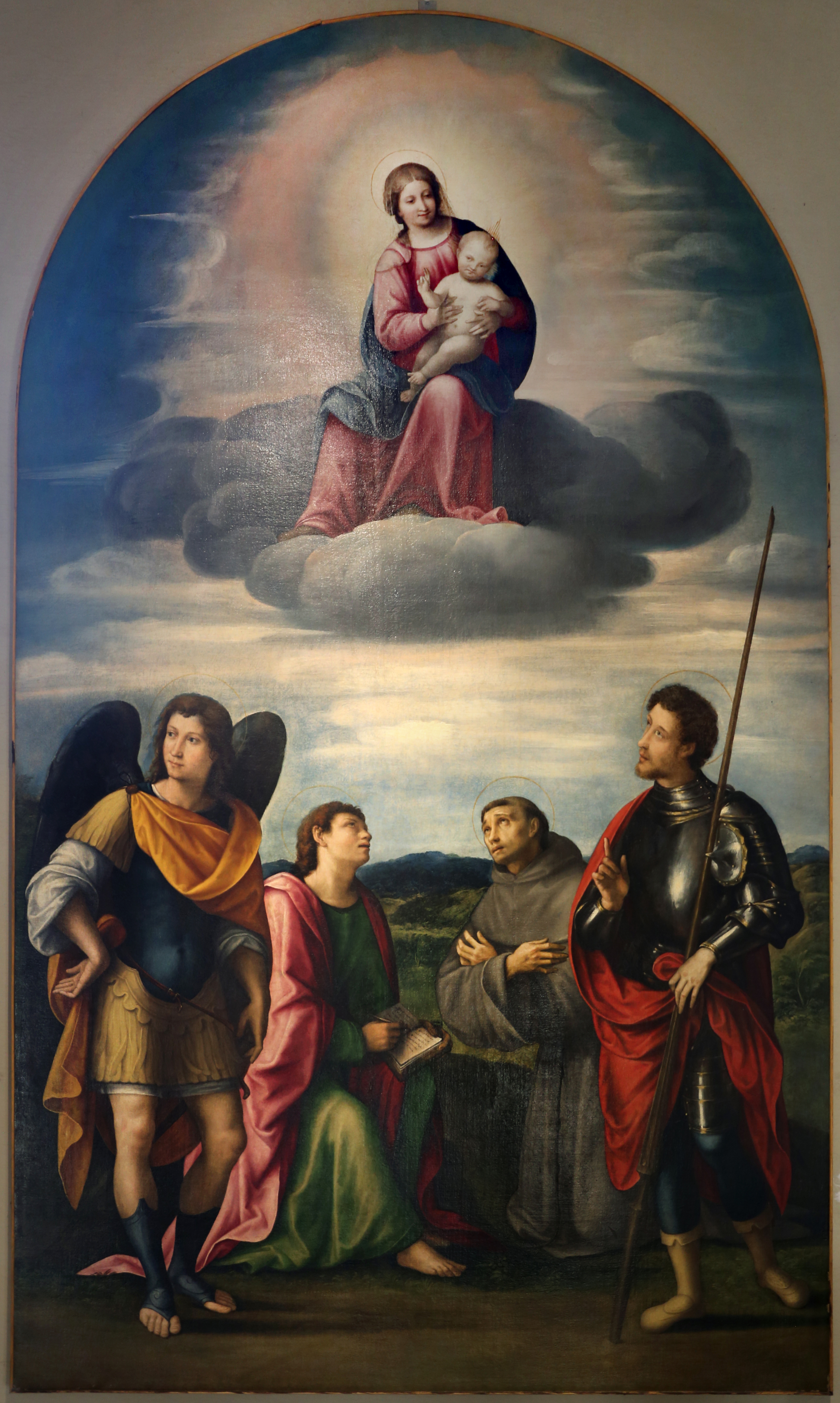 Collections of Palazzo Ducale (Mantua)